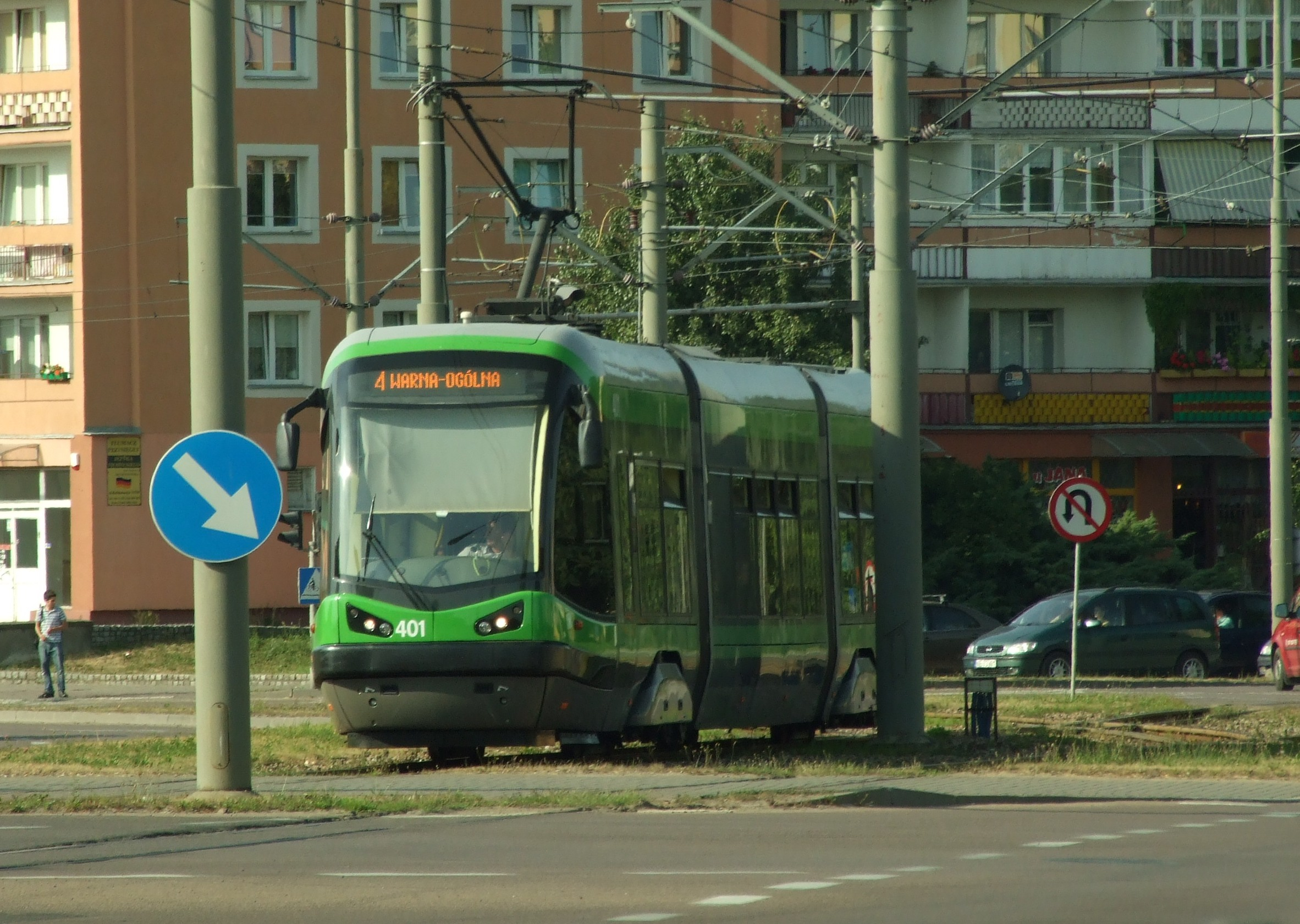 A tram in northern part of Elbląg (12 lutego street), Poland